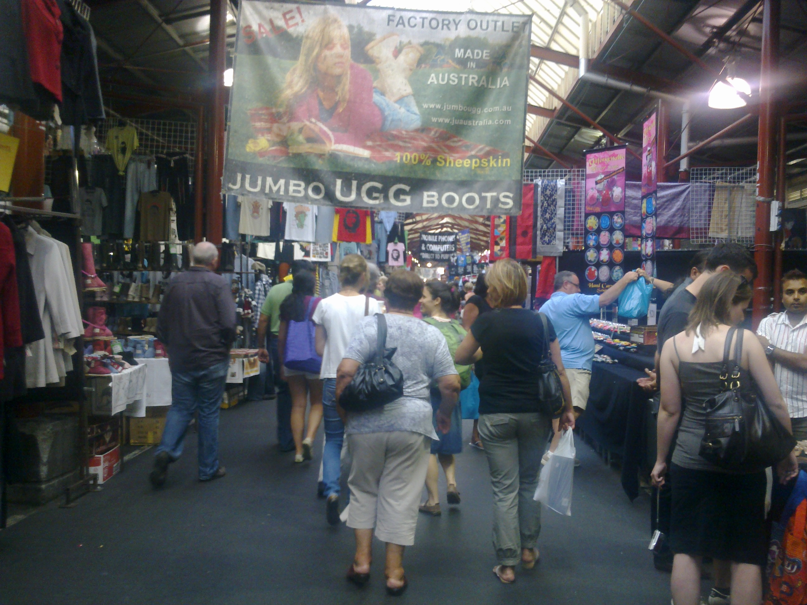 Queen Victoria Market, Melbourne shed B